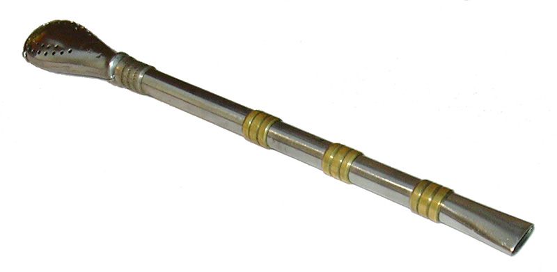 This image shows a bombilla as used for drinking mate tea.